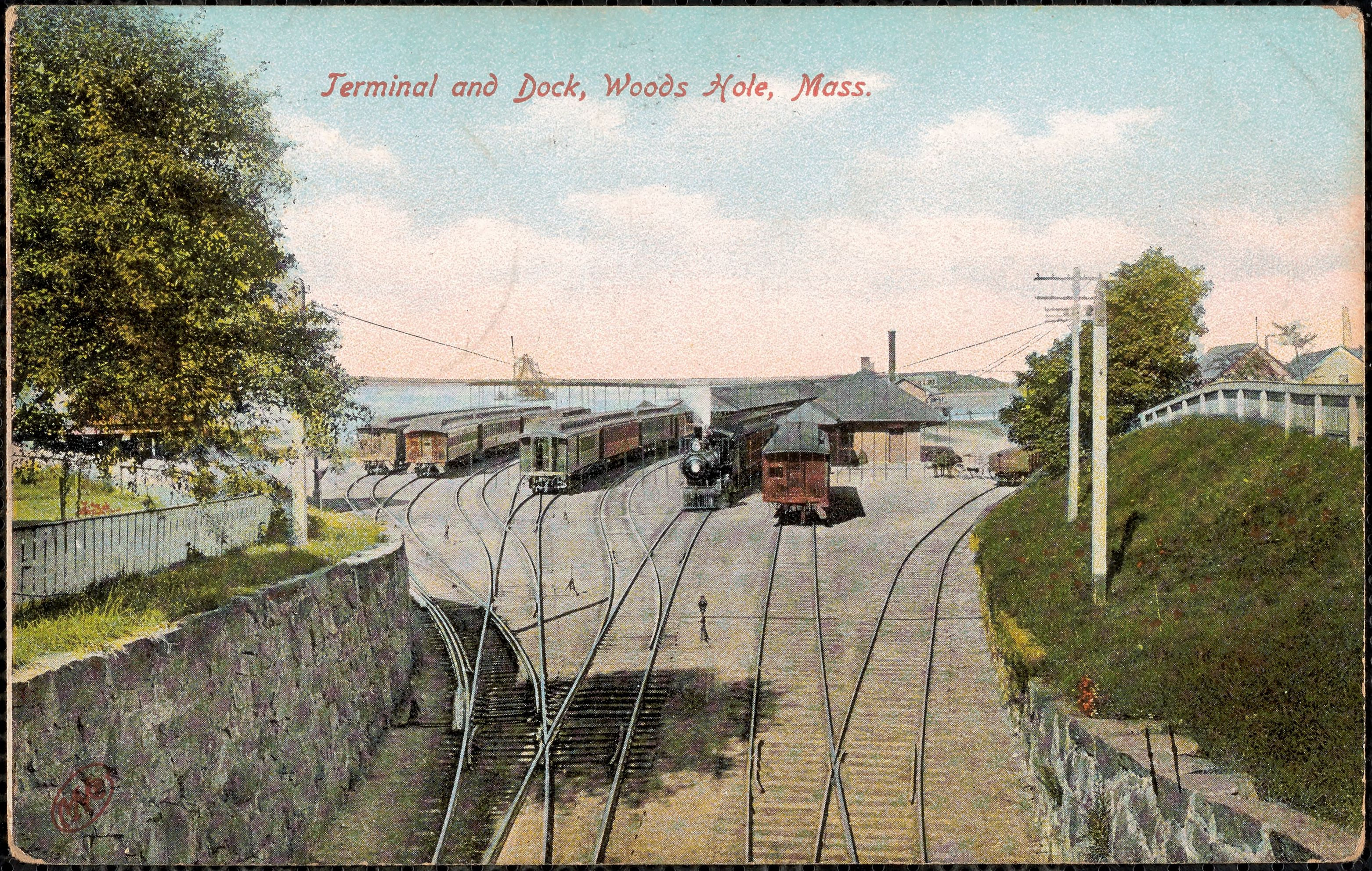 Postcard showing the railroad station in Wood Hole, Massachusetts on Cape Cod.